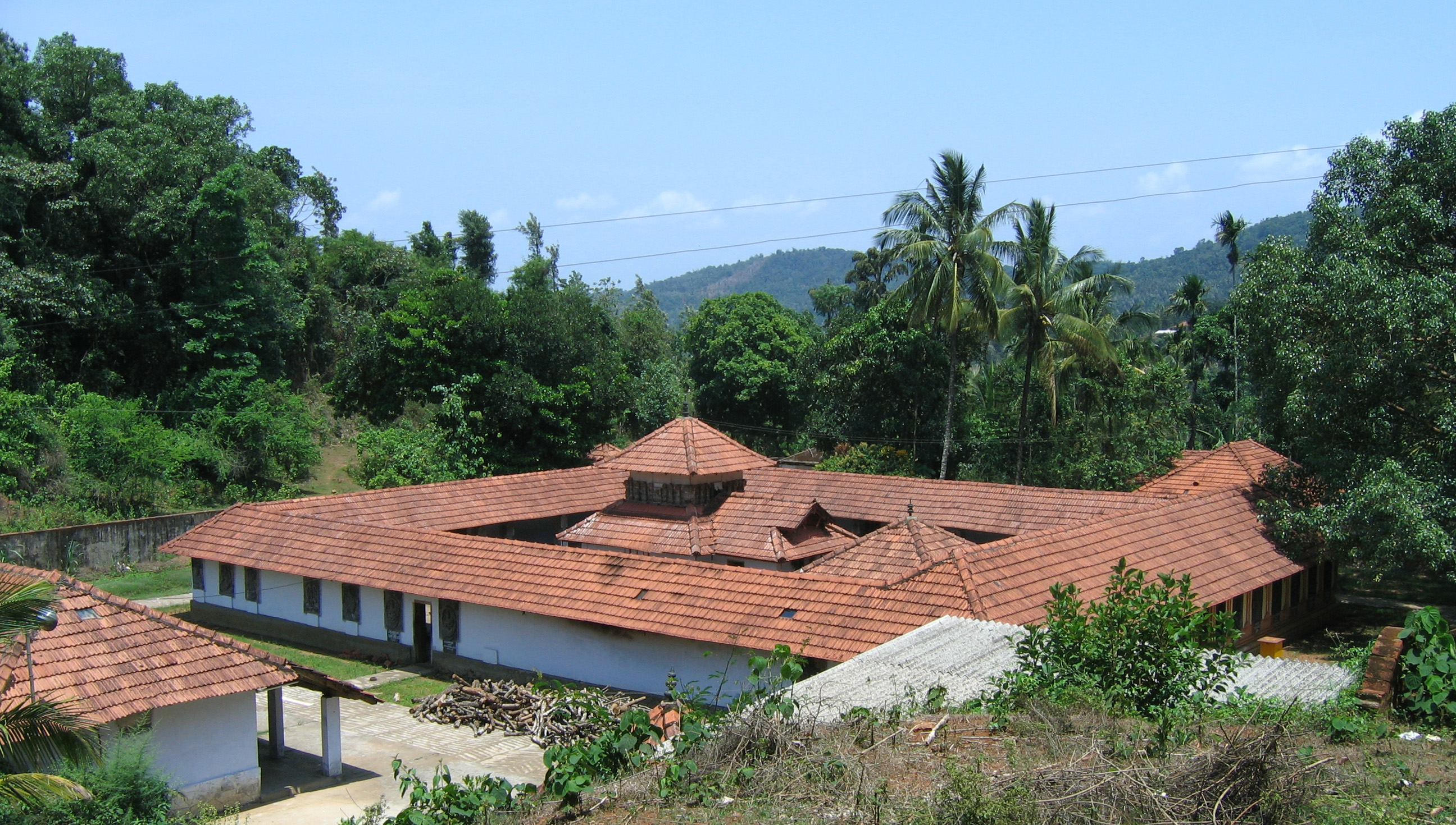 Thrissilery Siva Temple